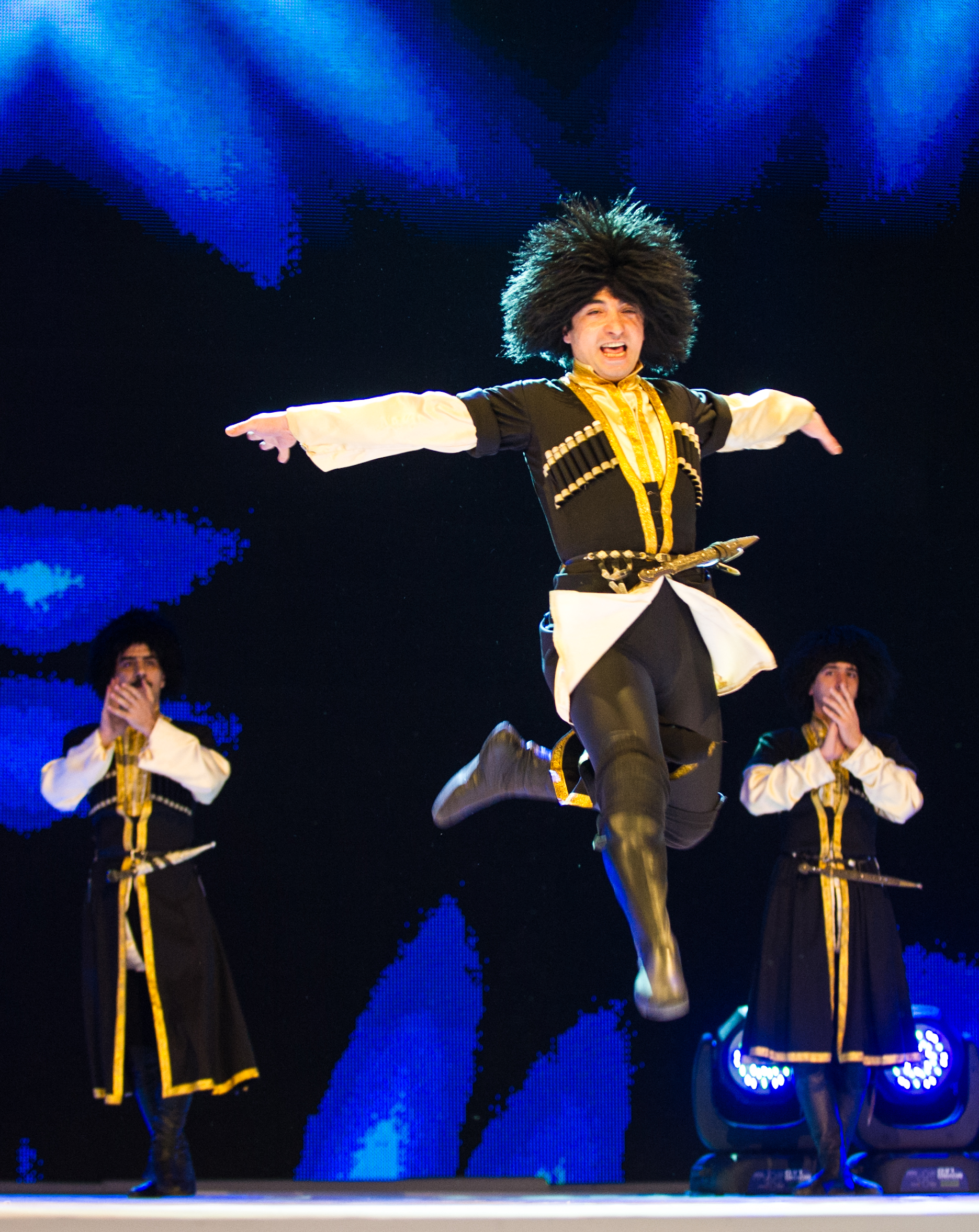 Azerbaijani dances